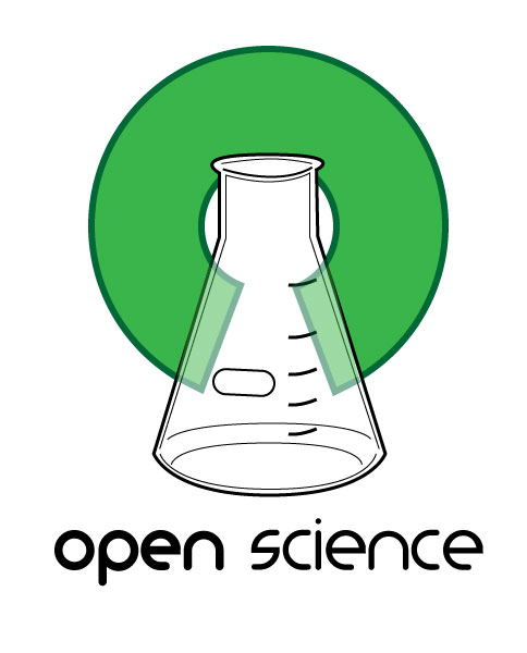 Please see updated version here so as to not confuse with the Open Source Initiative. Font: Monoglyceride by Tepid Monkey Fonts.